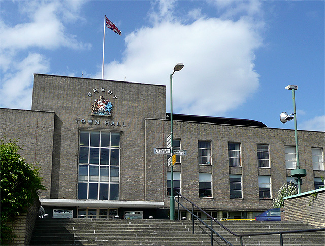 Brent Town Hall (Front), Wembley